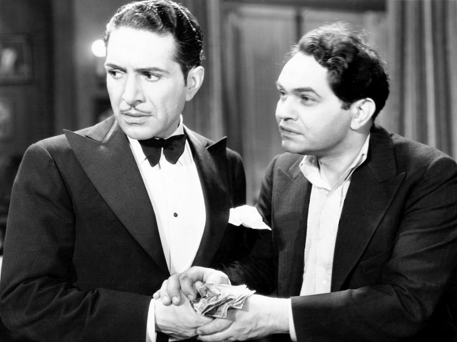 J. Carrol Naish and Edward G. Robinson in a scene from the American drama film Two Seconds (1932).